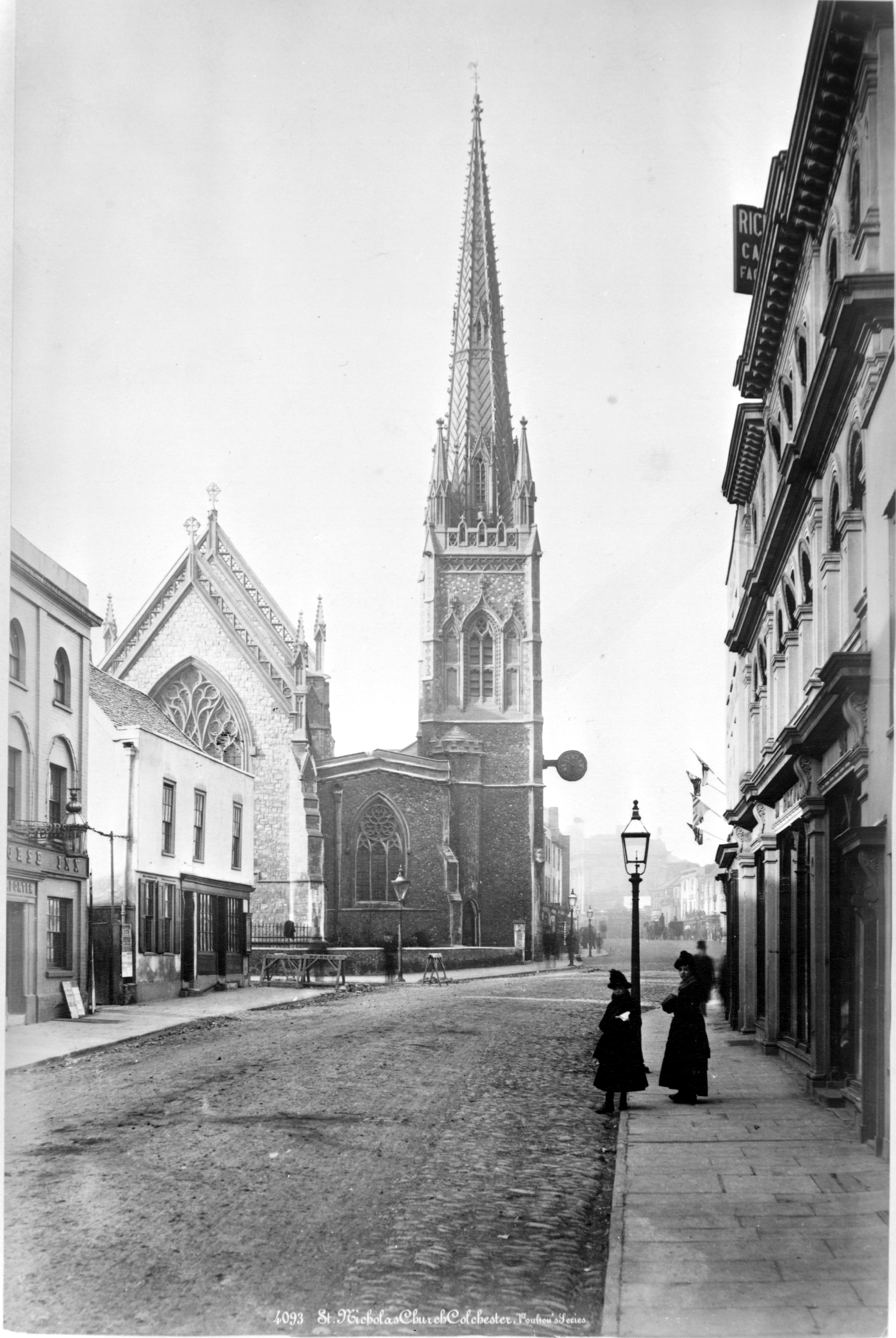 St Nicholas Church in Colchester High Street Circa 1880